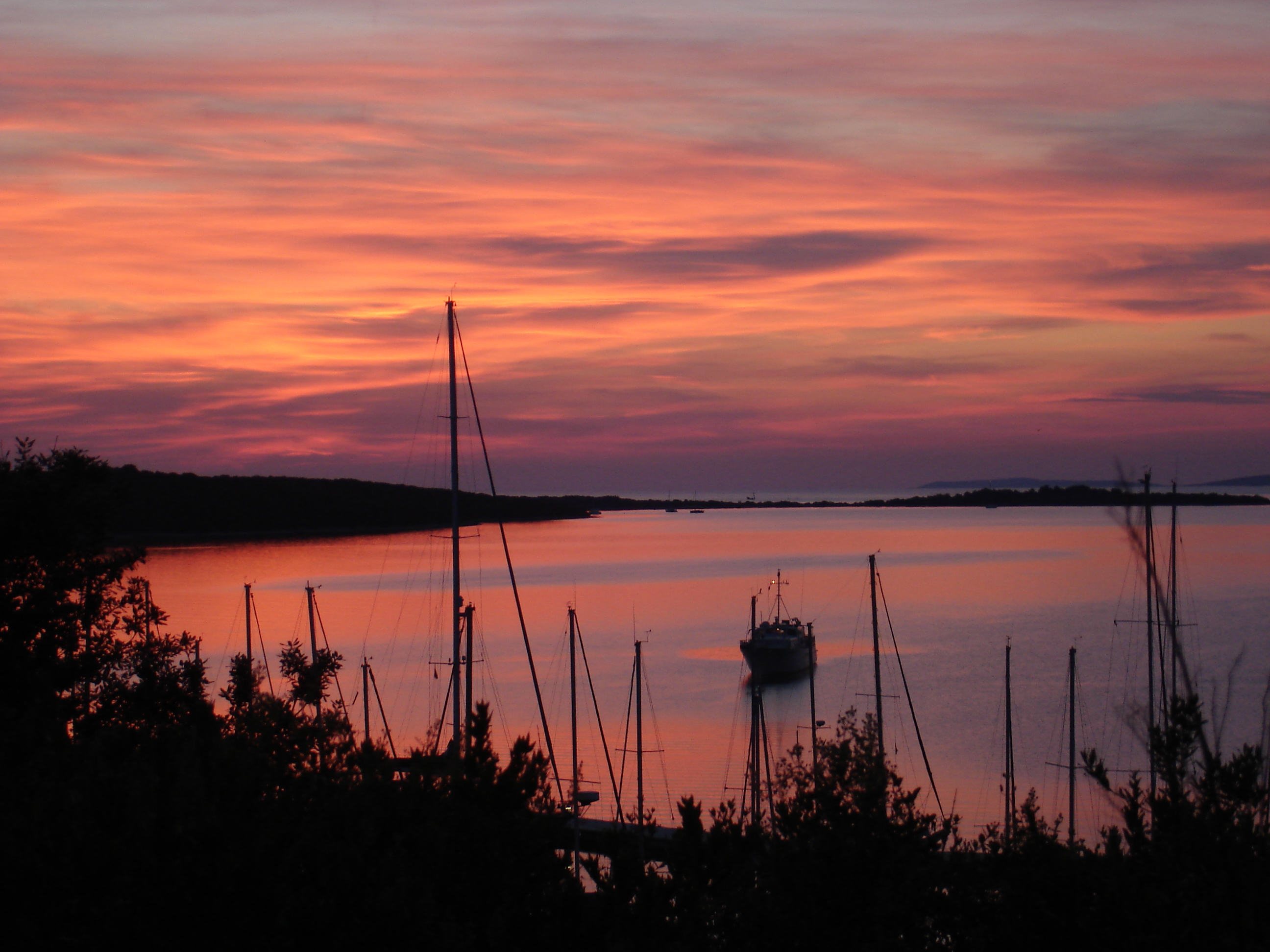 Veli Rat in the twilight, Dugi otok, Croatia.